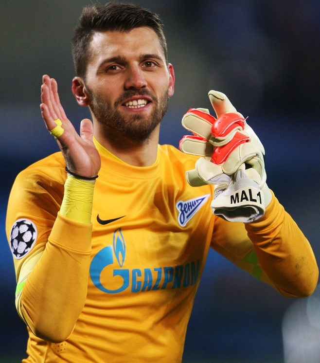 Juri Lodigin